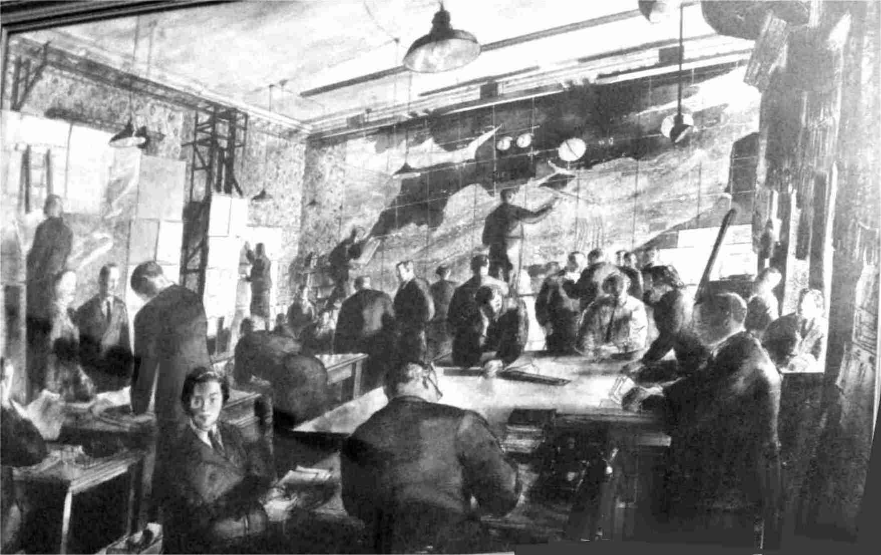 Southwick House map room in operation 1944 - photo taken 2019-9-11